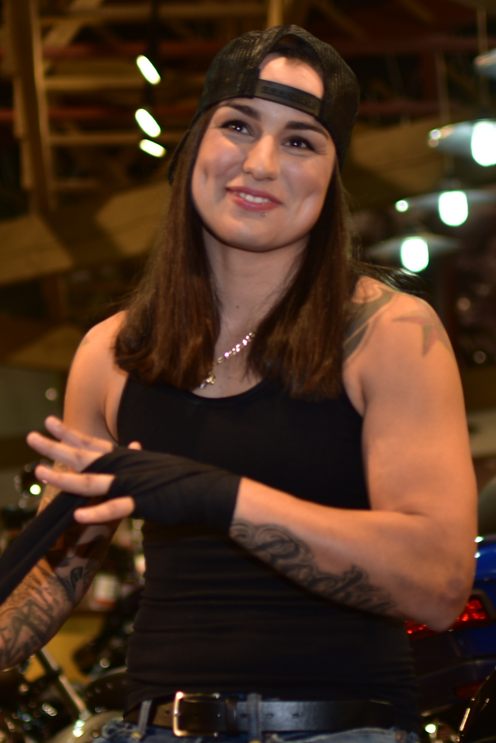 Photography by Nathaniel Garcia All rights reserved